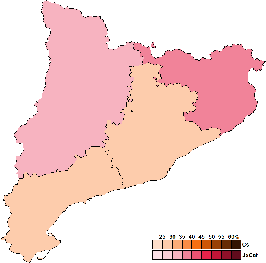 Provincial results for the 2017 Catalan regional election.